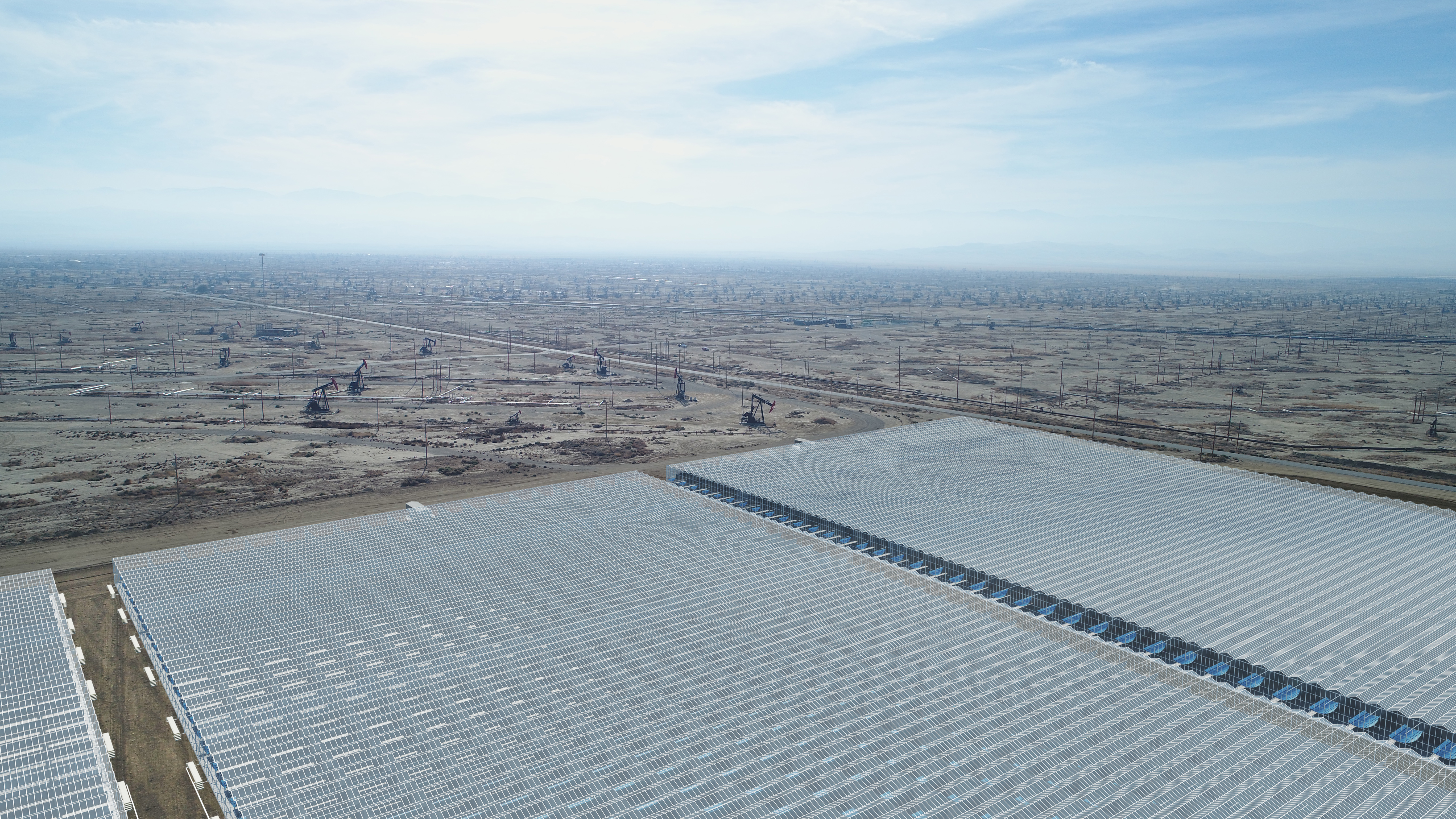 A rendering of the Belridge facility, which, when done, will be the largest solar facility in California.